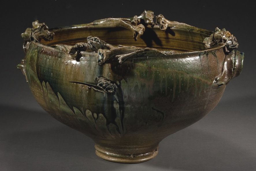 Trophy Bowl, Don Reitz, ca. 1962 to 1982. Salt-glazed stoneware 11 x 20 x 18 in. Collection of Fray Bright